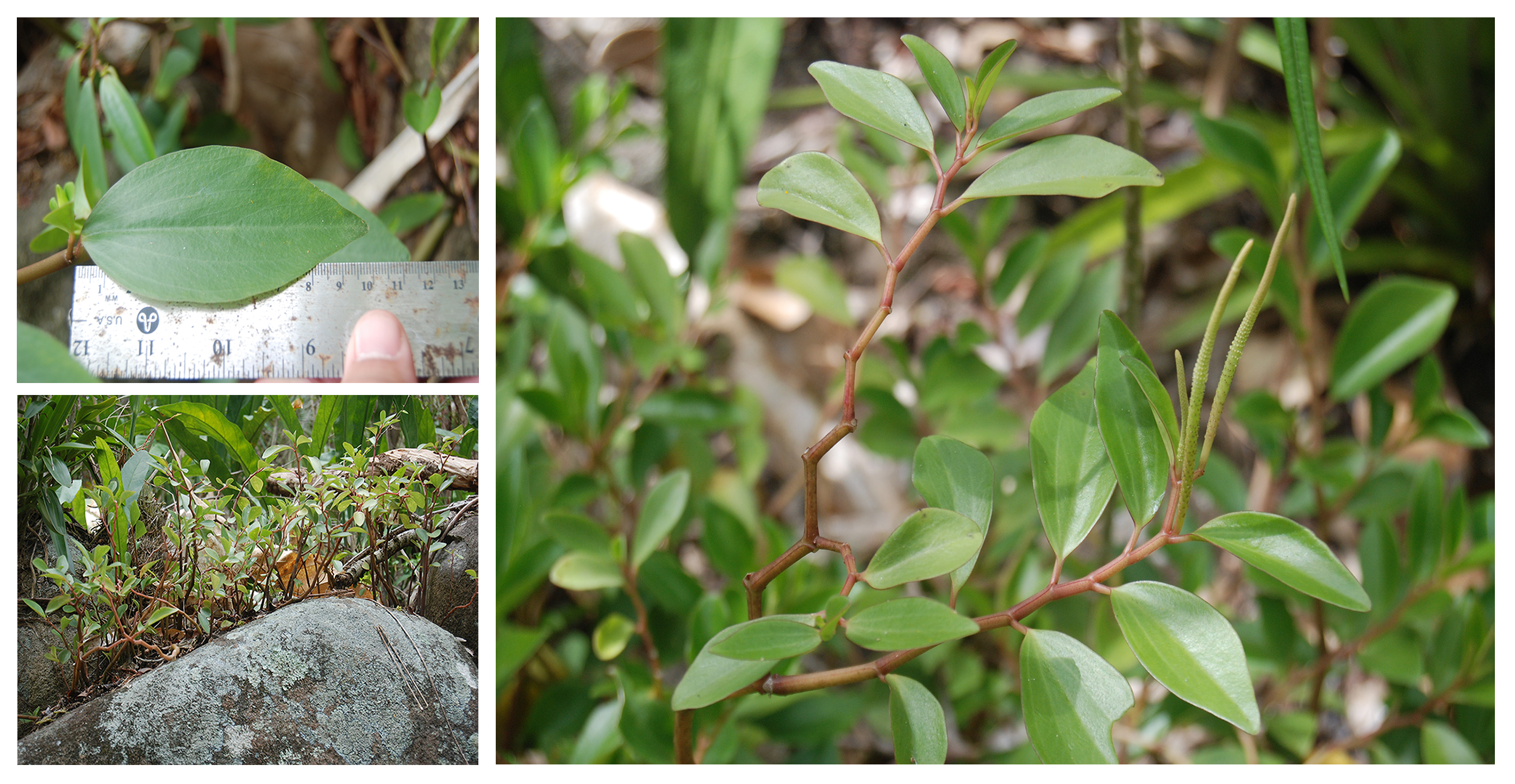 No common name in English nor Spanish. Status: Endangered Listed on January 14, 1987 Photos by Carlos Pacheco Composition by Lilibeth Serrano Location, Culebra, Puerto Rico More information about this species at